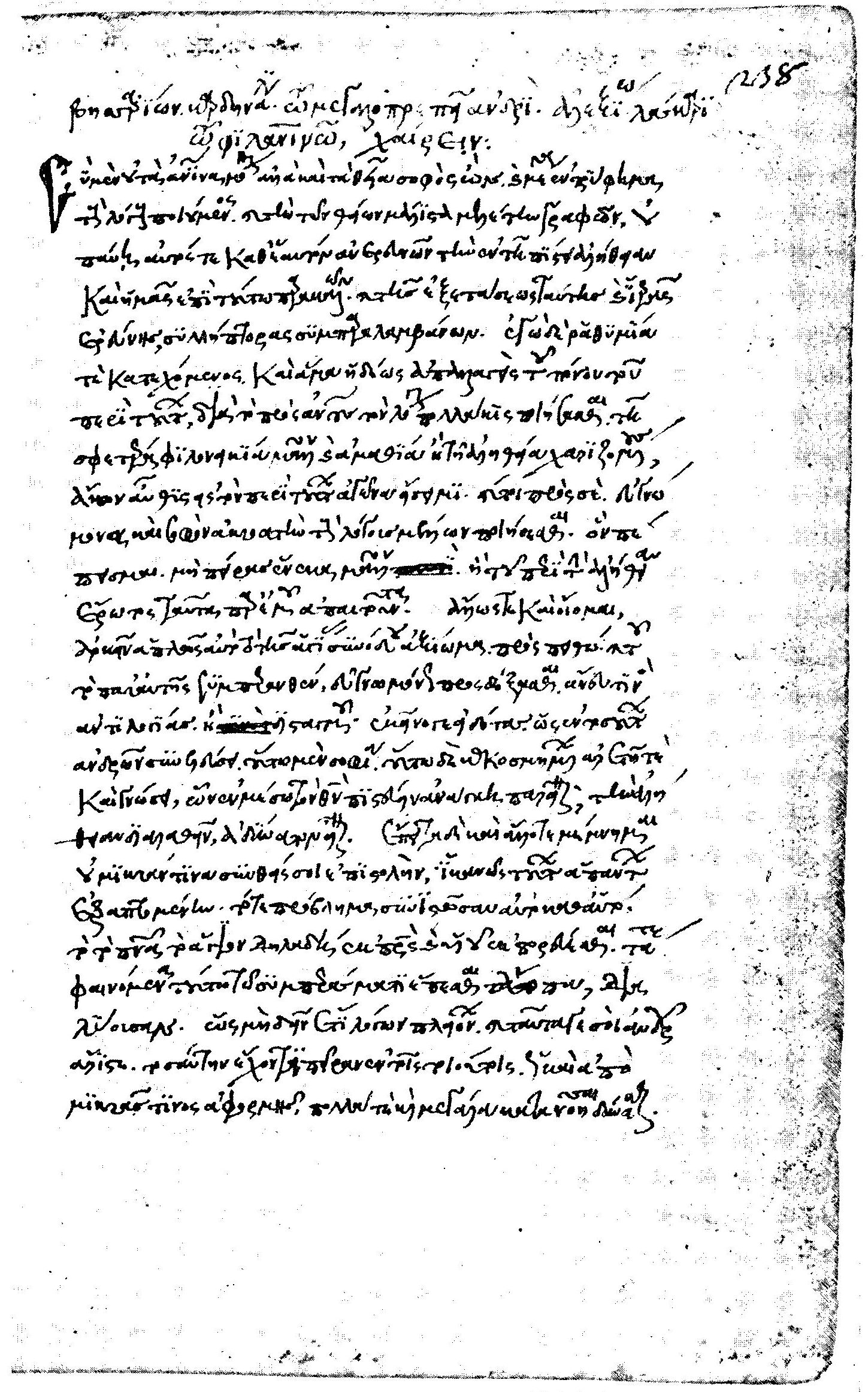 A page of an autograph copy of Cardinal Bessarion’s letter to Alexius Lascaris in the manuscript Venice, Biblioteca Nazionale Marciana, Gr. Z. 533 (= 778), fol. 238r.